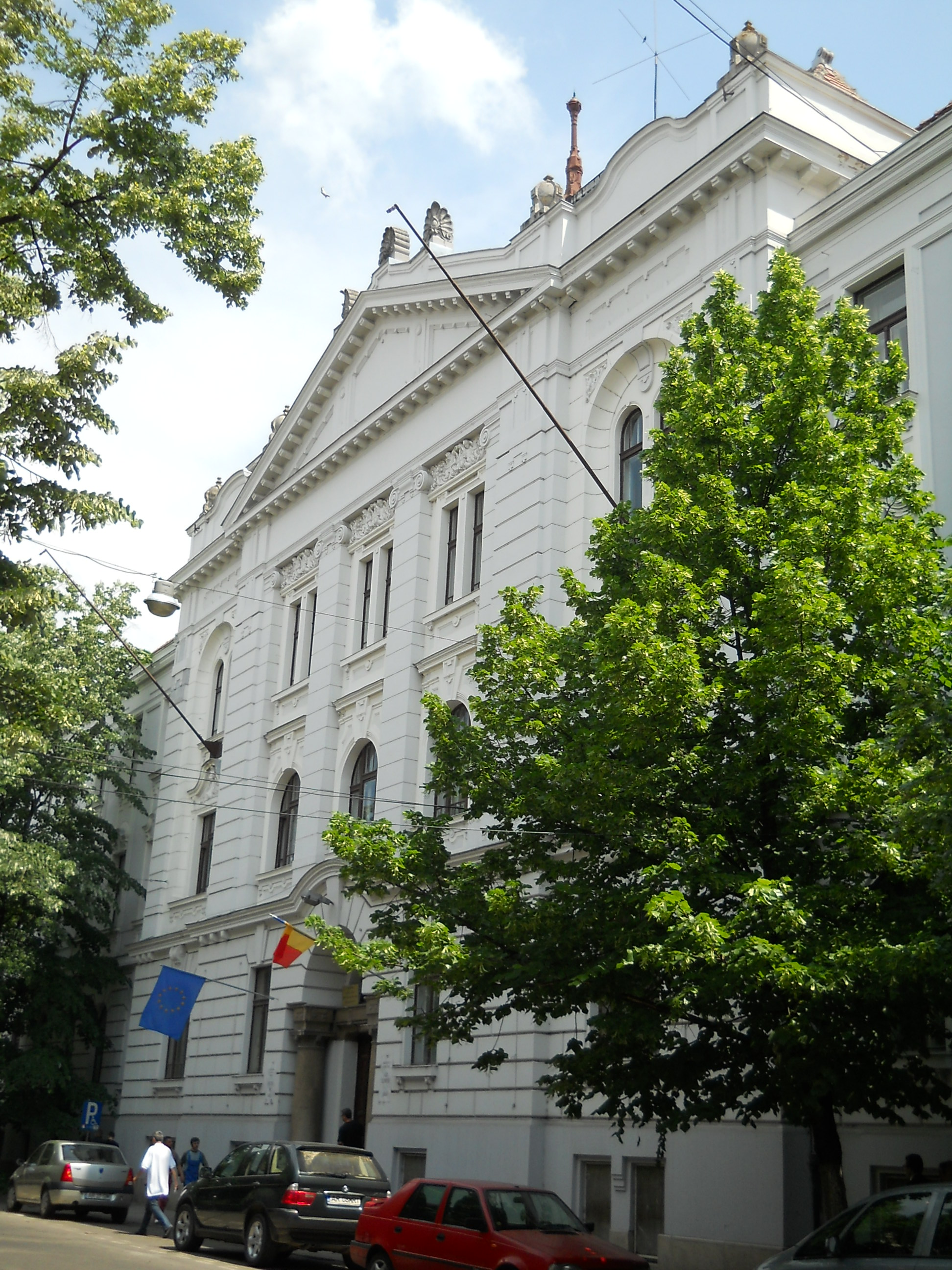 vedere dinspre strada Gheorghe Popa de Teius